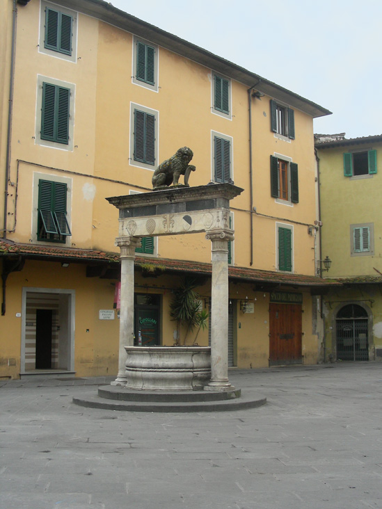 Pistoia (Italy), square of "Sala" (curtis domini regi)